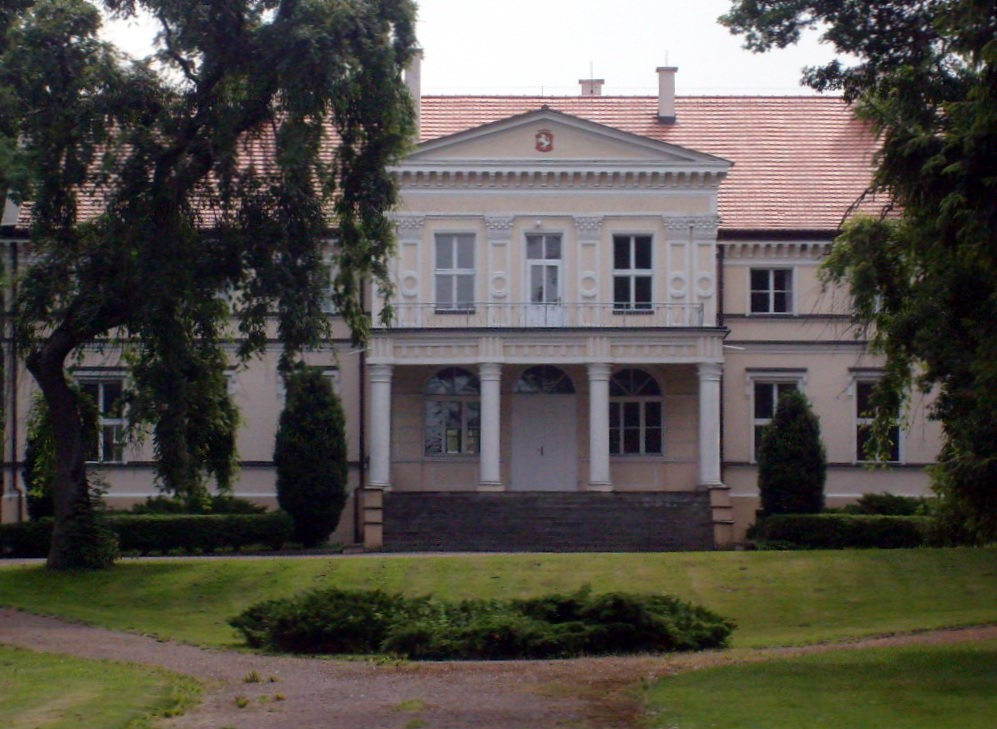 The palace in Mała Komorza, Poland.